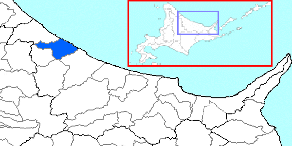 The location of Okoppe in Abashiri Subprefecture, Hokkaido Prefecture, Japan.